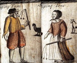 "Whipping Tom and Skiping Ione", detail from the Yale Center 'Panorama'